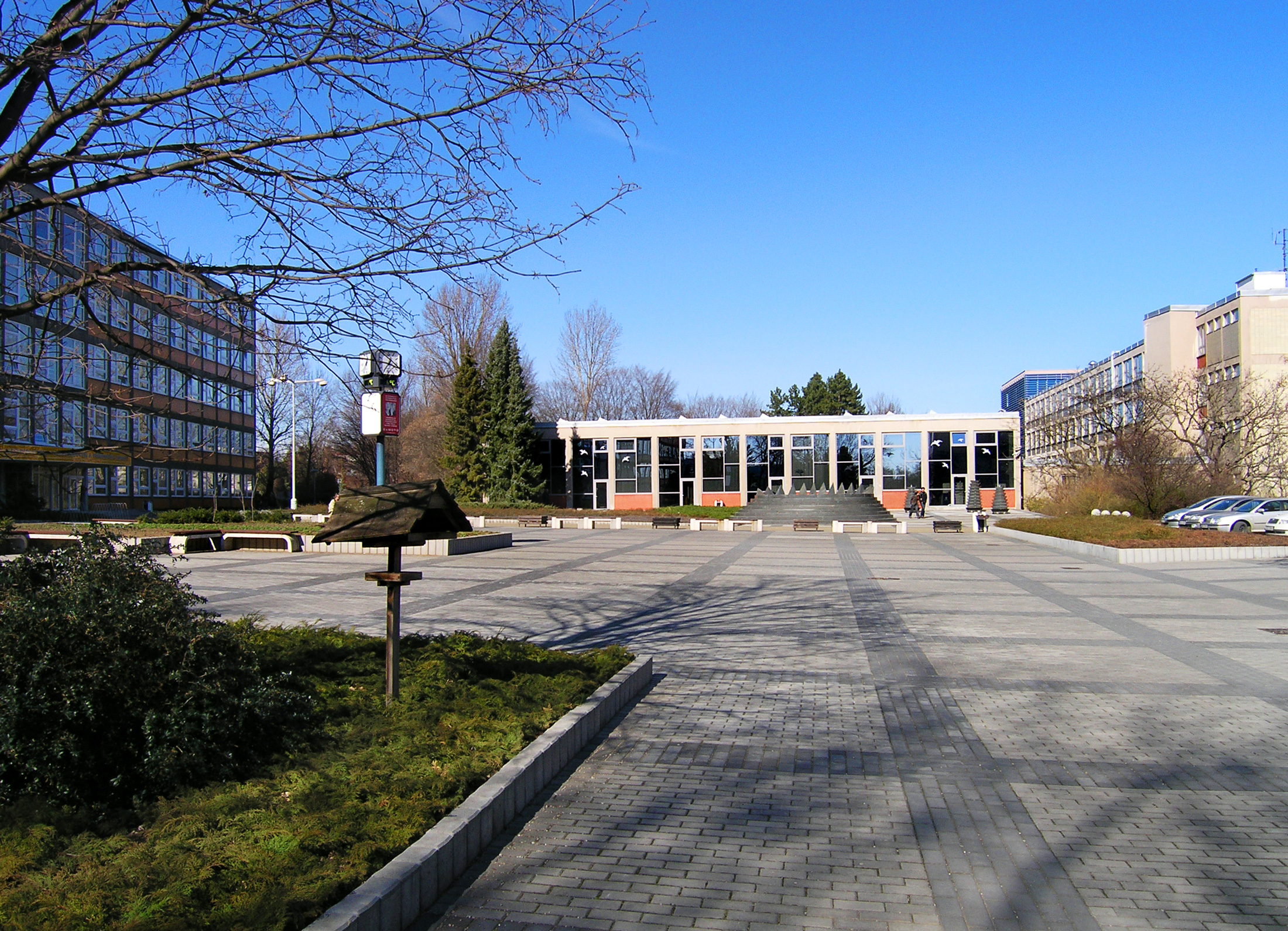 Central square of Czech University of Life Sciences Prague in Suchdol, Prague